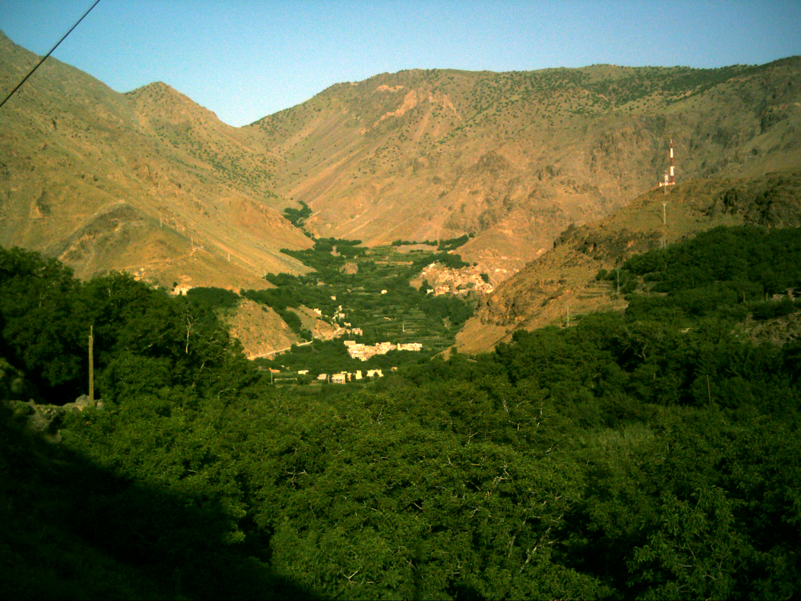 View of the village Imlil, High Atlas, Morocco. looking Westwards and down into Imlil's valley. Illustrates the arid hills surrounding the wooded valley. Taken early one summer morning.